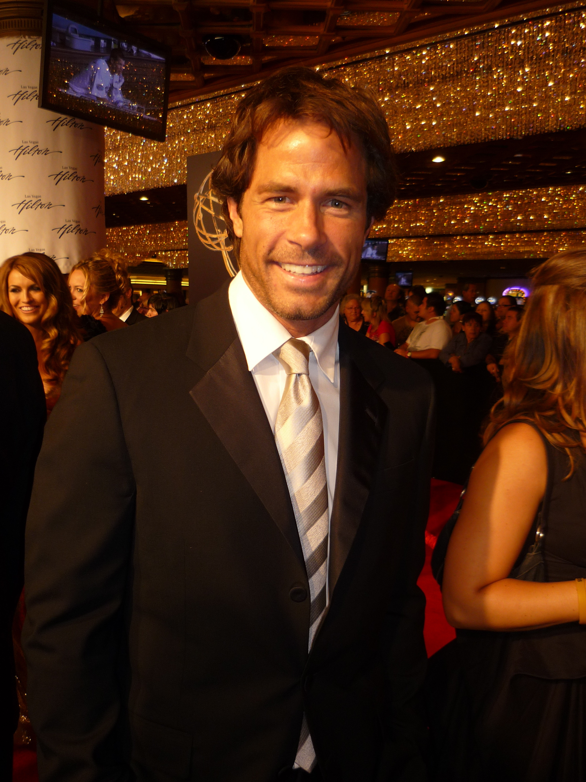 Actor Shawn Christian at 2010 Daytime Emmy Awards